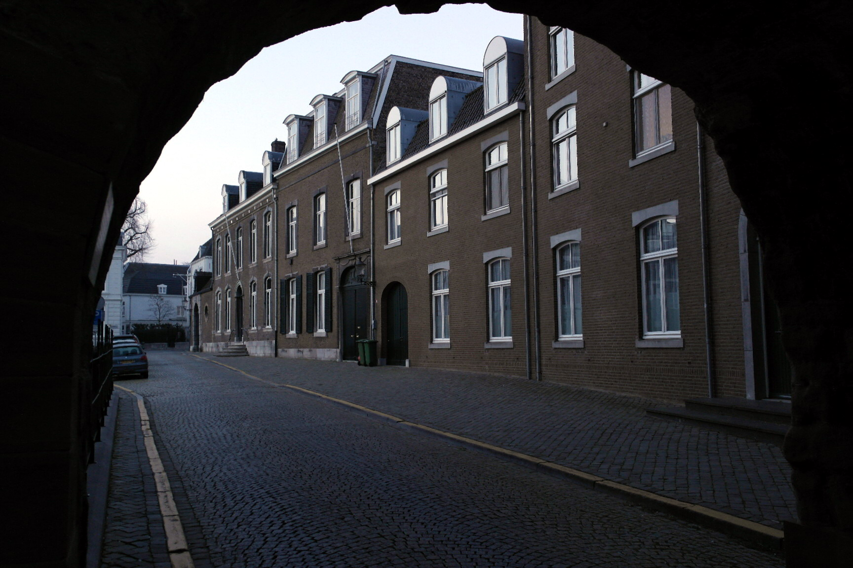 Maastricht, the Netherlands. View of canons' houses at Henric van Veldekeplein-Sint-Servaasklooster from Onder de Bogen, the 13th-century buttresses of the Westwork of the Basilica of Saint Servatius.